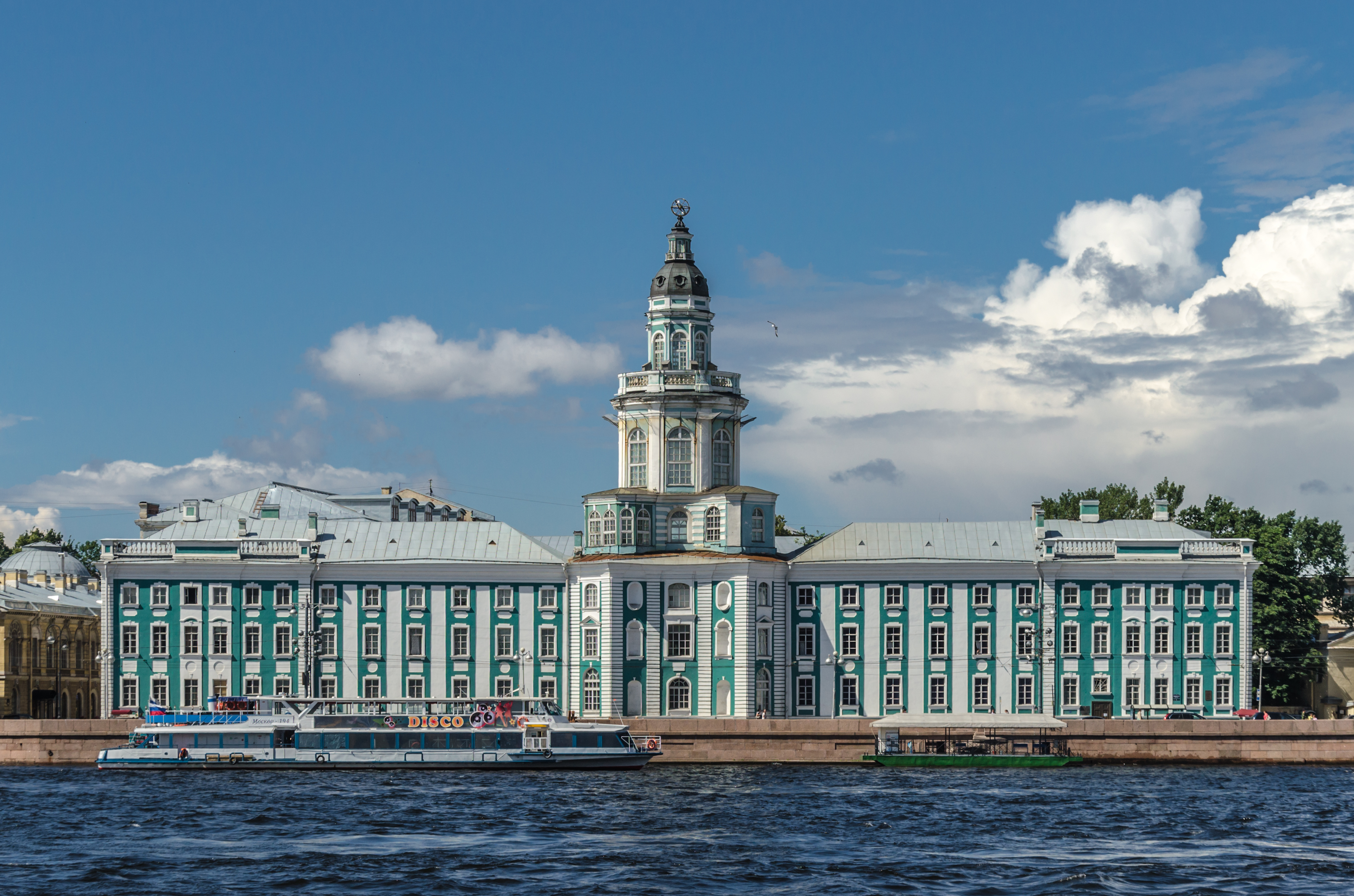 Kunstkamera (Peter the Great Museum of Anthropology and Ethnography) in Saint Petersburg